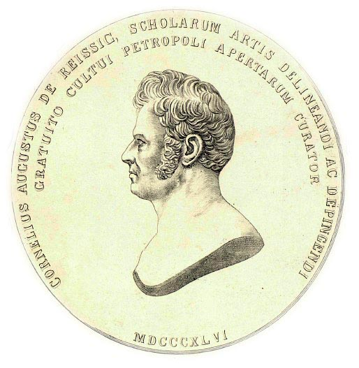 A one-side electrotype medal with portrait of Cornelius Reissig, probably made for his 65th anniversary. An inscription in Latin: Cornelius Augustus De Reissig, scholarum artis delineandi ac depingendi gratuito cultui Petropoli apertarum curator. MDCCCXLVI (Cornelius Augustus von Reissig, a curator of schools opened at Saint Petersburg for free of charge drawing and painting education. 1846).